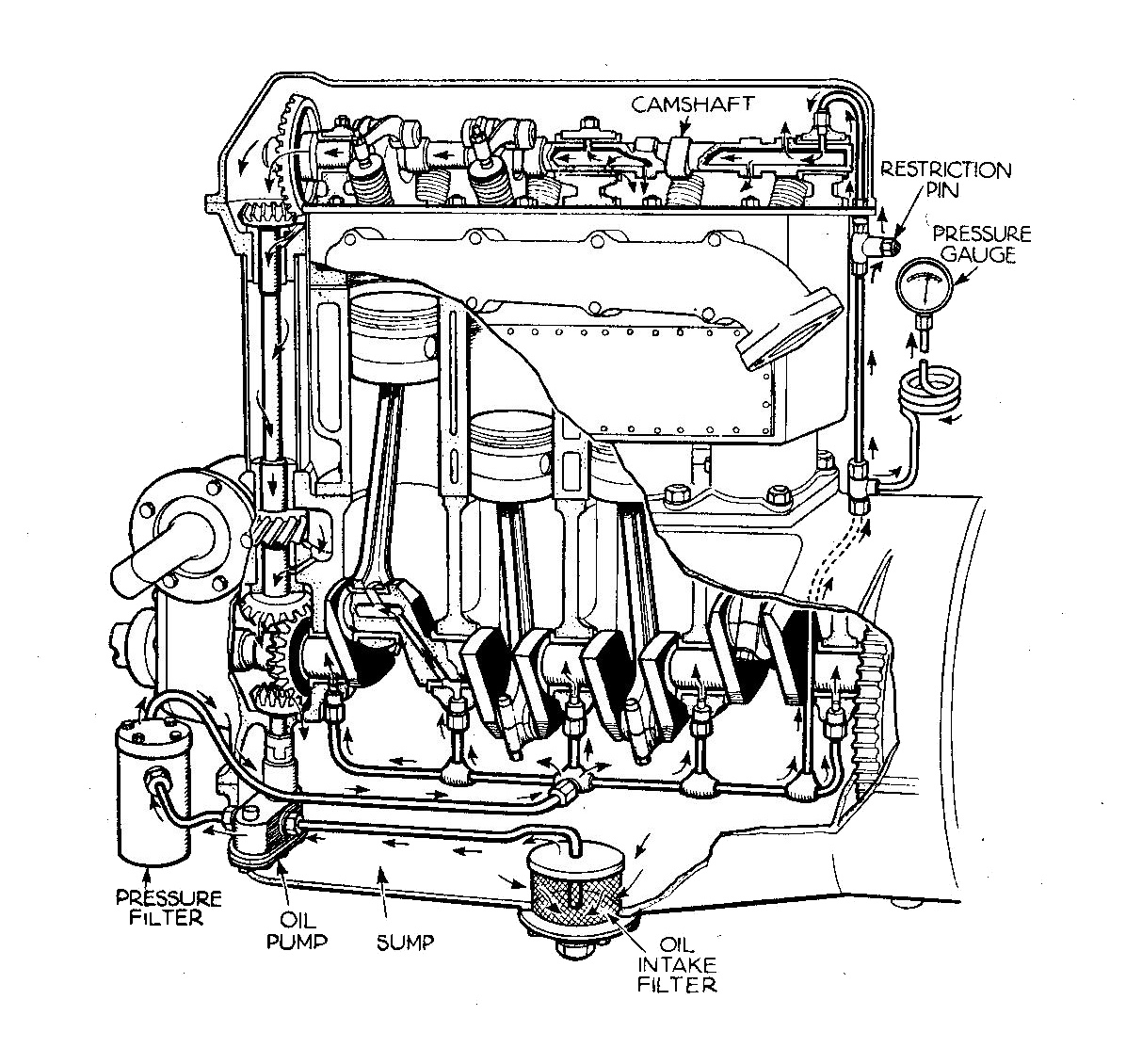 Overhead cam engine with forced oil lubrication (Autocar Handbook, 13th ed, 1935).jpg